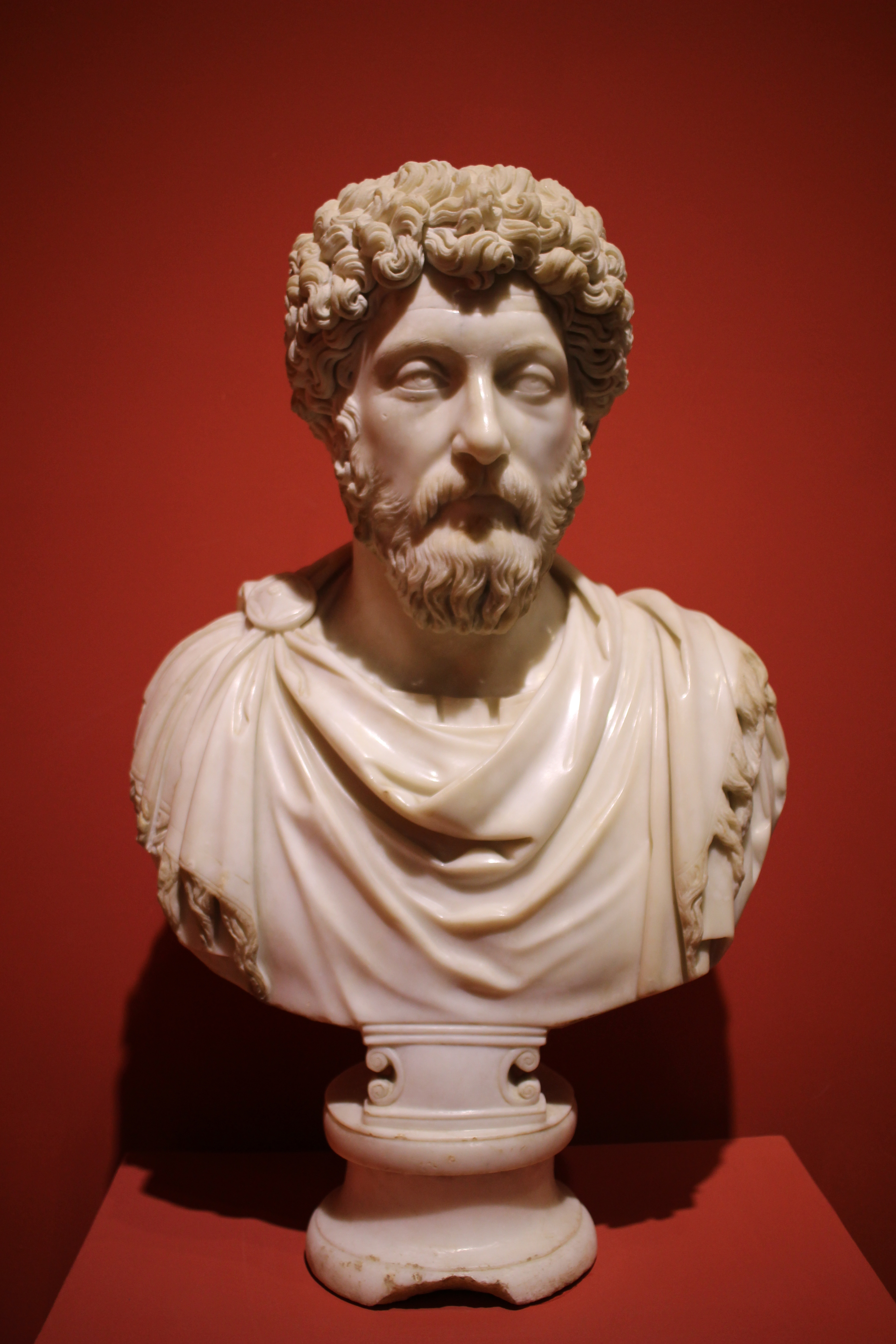 Marcus Aurelius, 2nd century AD, Ephesus Museum, Turkey